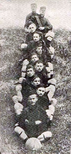 Football club "Sława" Lwów in 1904, later called (Czarni Lwów).